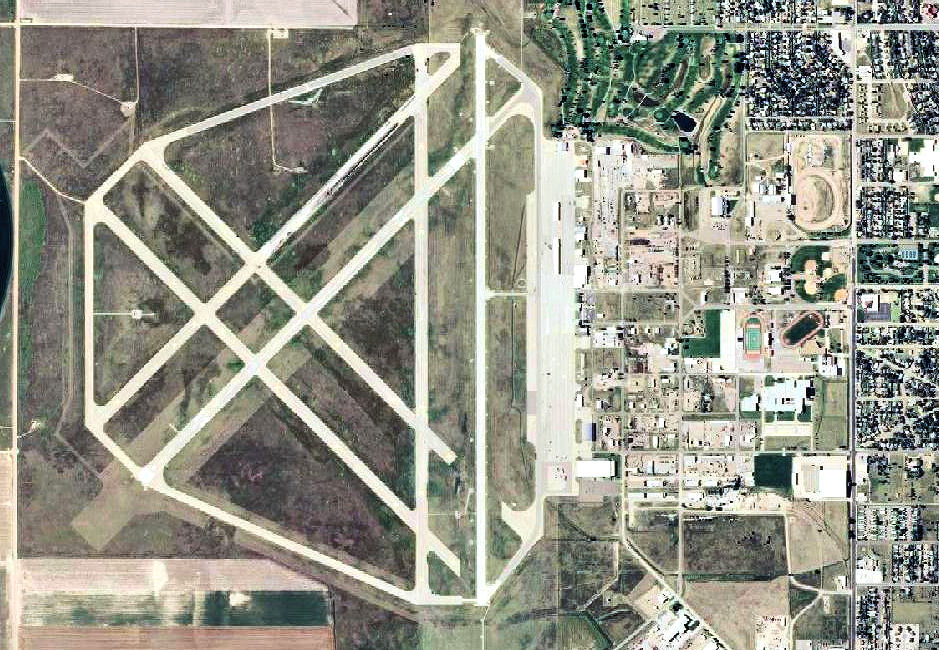 USGS orthophoto of Liberal Mid-America Regional Airport, formerly Liberal Army Airfield, in Kansas, United States